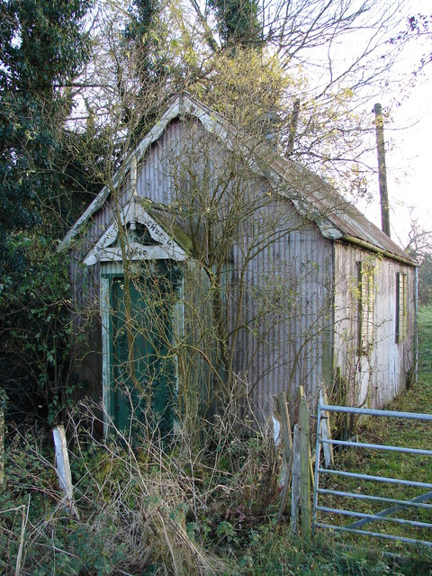 Corrugated iron former church at Linwood, Lincolnshire